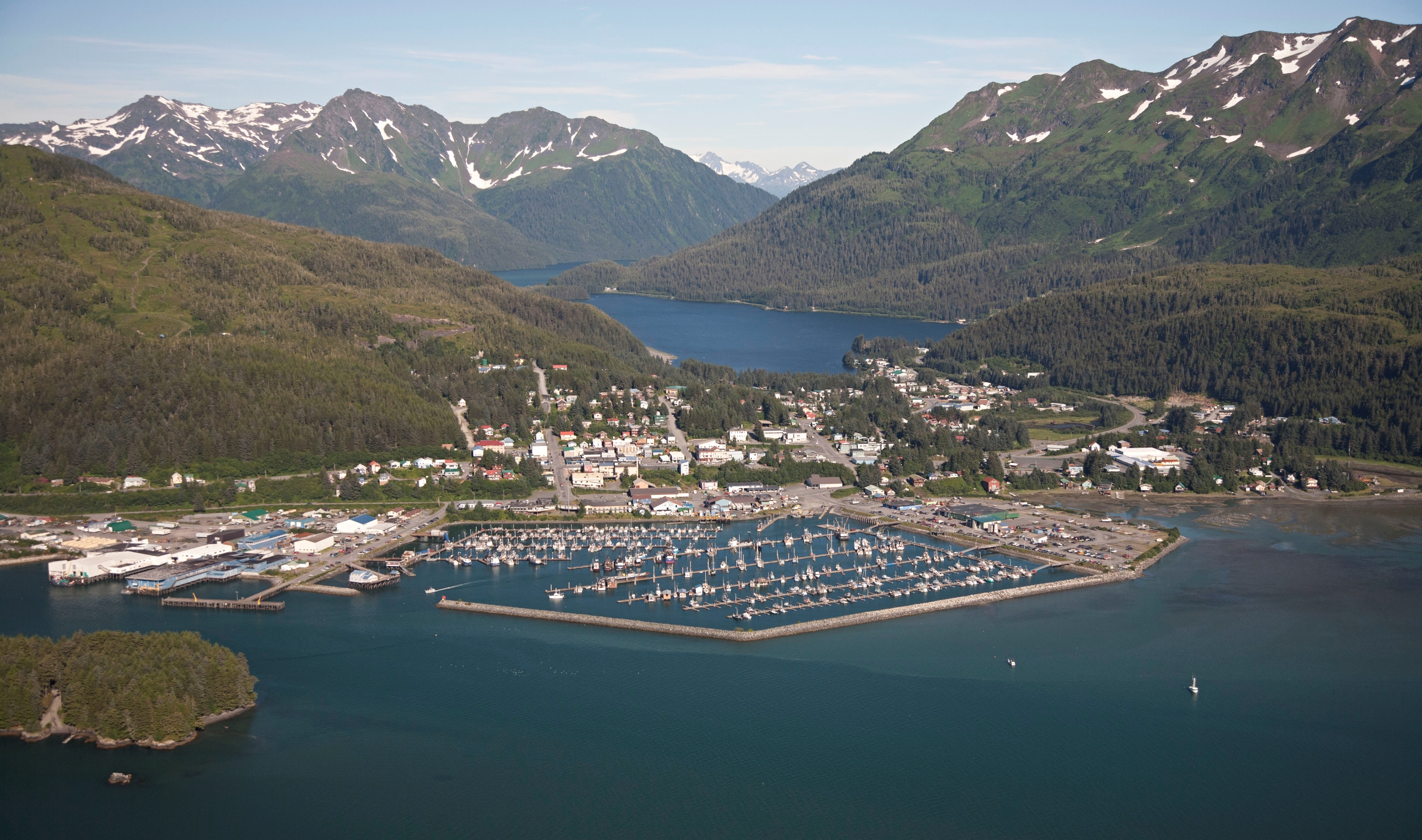 Aerial Cordova, Orca Inlet and Eyak Lake, Prince William Sound, Chugach National Forest, Alaska.